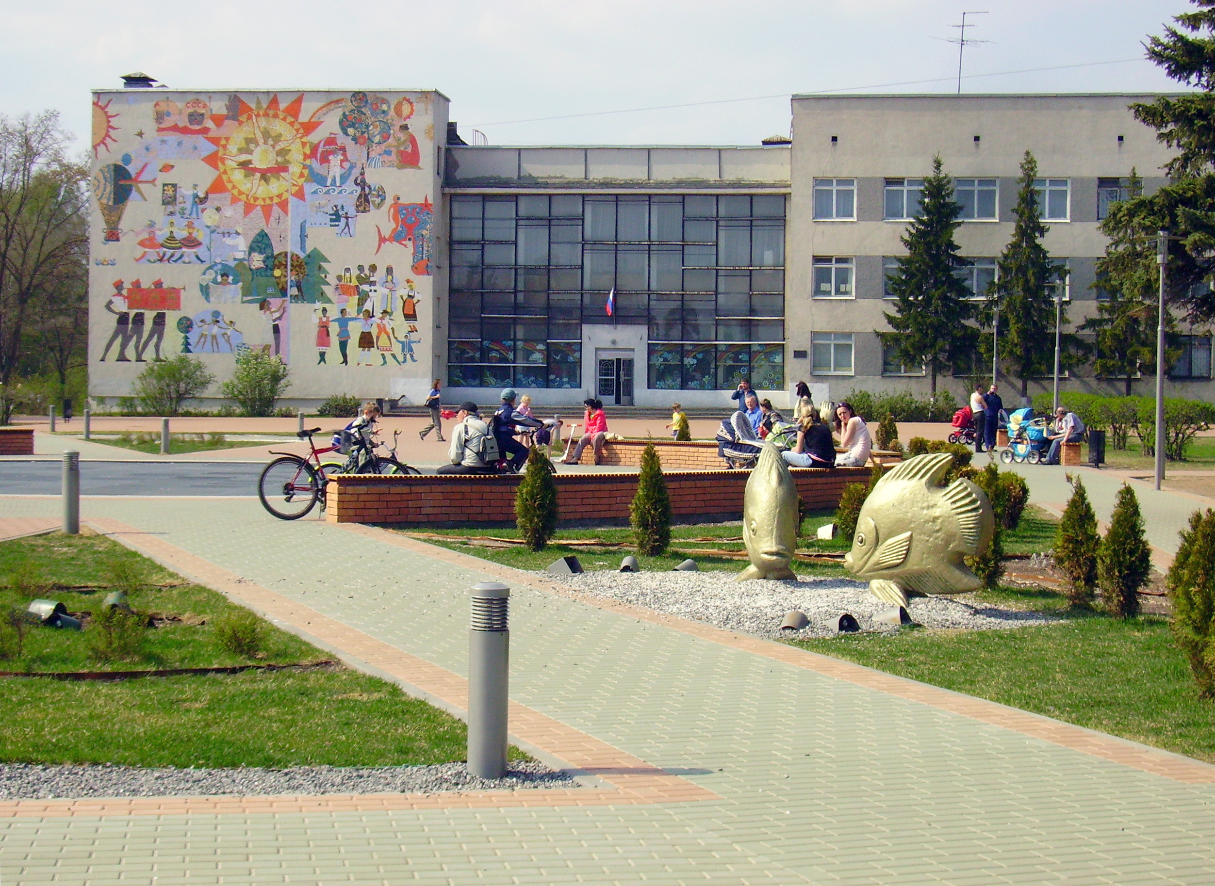 At Garden in front of Town Children Creation Palace